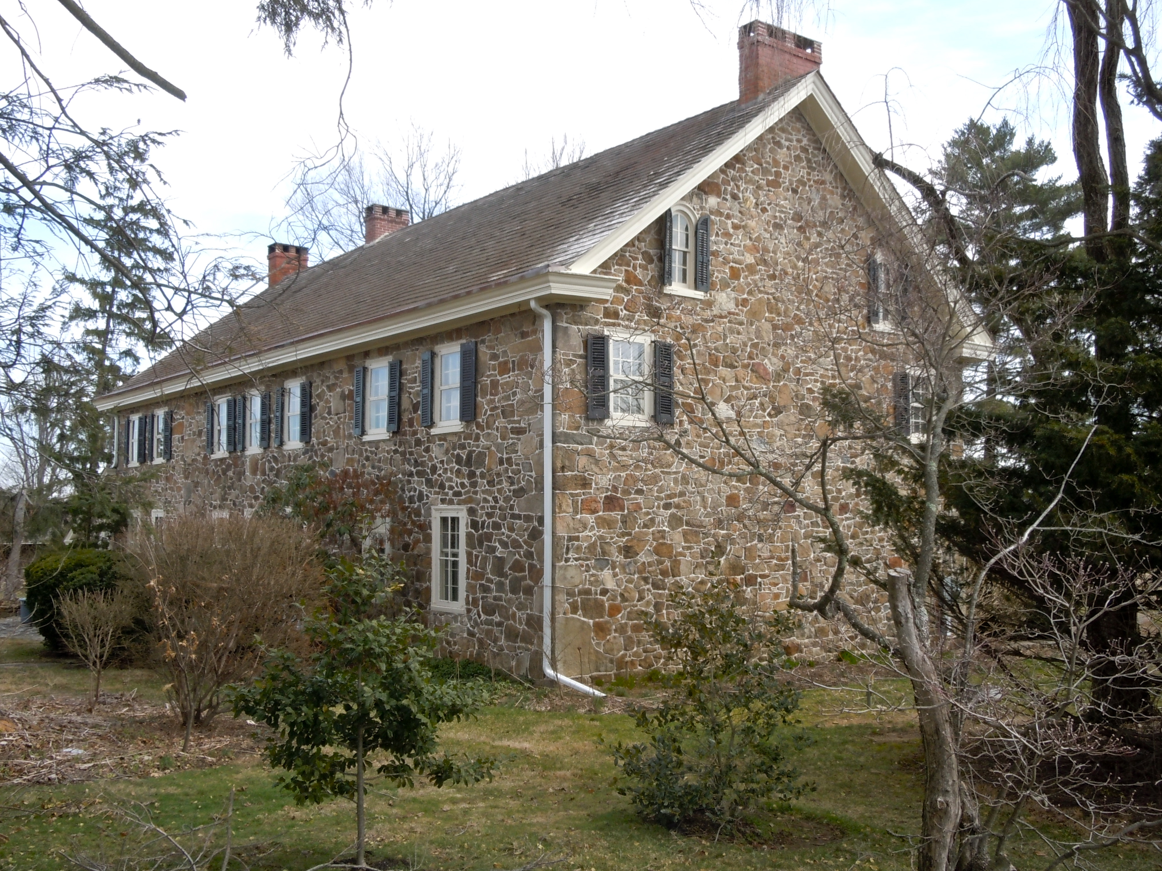 Pleasant Hill Plantation on the NRHP since February 24, 1983. On Little Conestoga Road near Glen Moore (south of the Pennsylvania Turnpike) in West Nantmeal Township, Chester County, Pennsylvania.